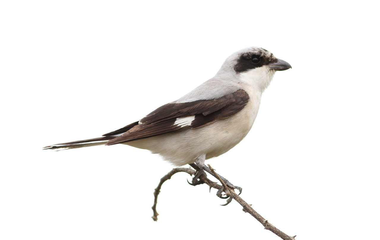 Lesser Grey Shrike, Lanius minor at Pilanesberg National Park, Northwest Province, South Africa. It was a backlit on a grey morning, hence the washed out sky. One of our summer visitors.